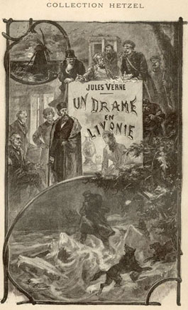 Original illustration from Léon Benett to A Drama in Livonia a novel by J. Verne.